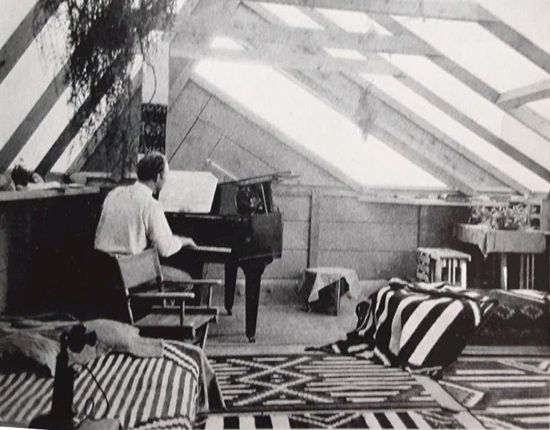 Wright's son, Lloyd, at the piano in the living room of the family cabin at Ocotillo, Chandler Arizona. 1929.